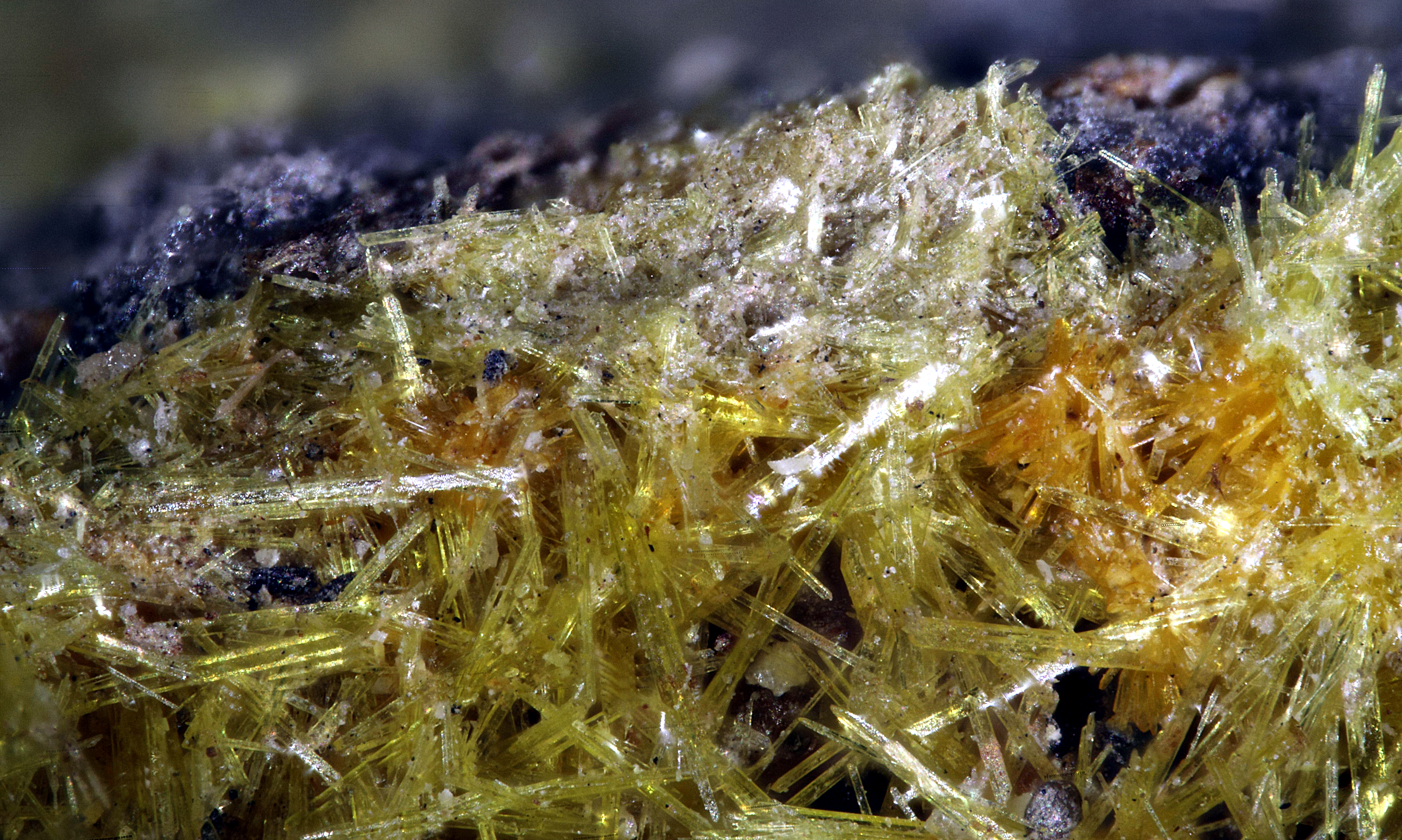 Sklodowskite from Nabarlek Uranium Mine, Alligator Rivers Region, Northern Territory, Australia (Field of view: 5.8 mm)